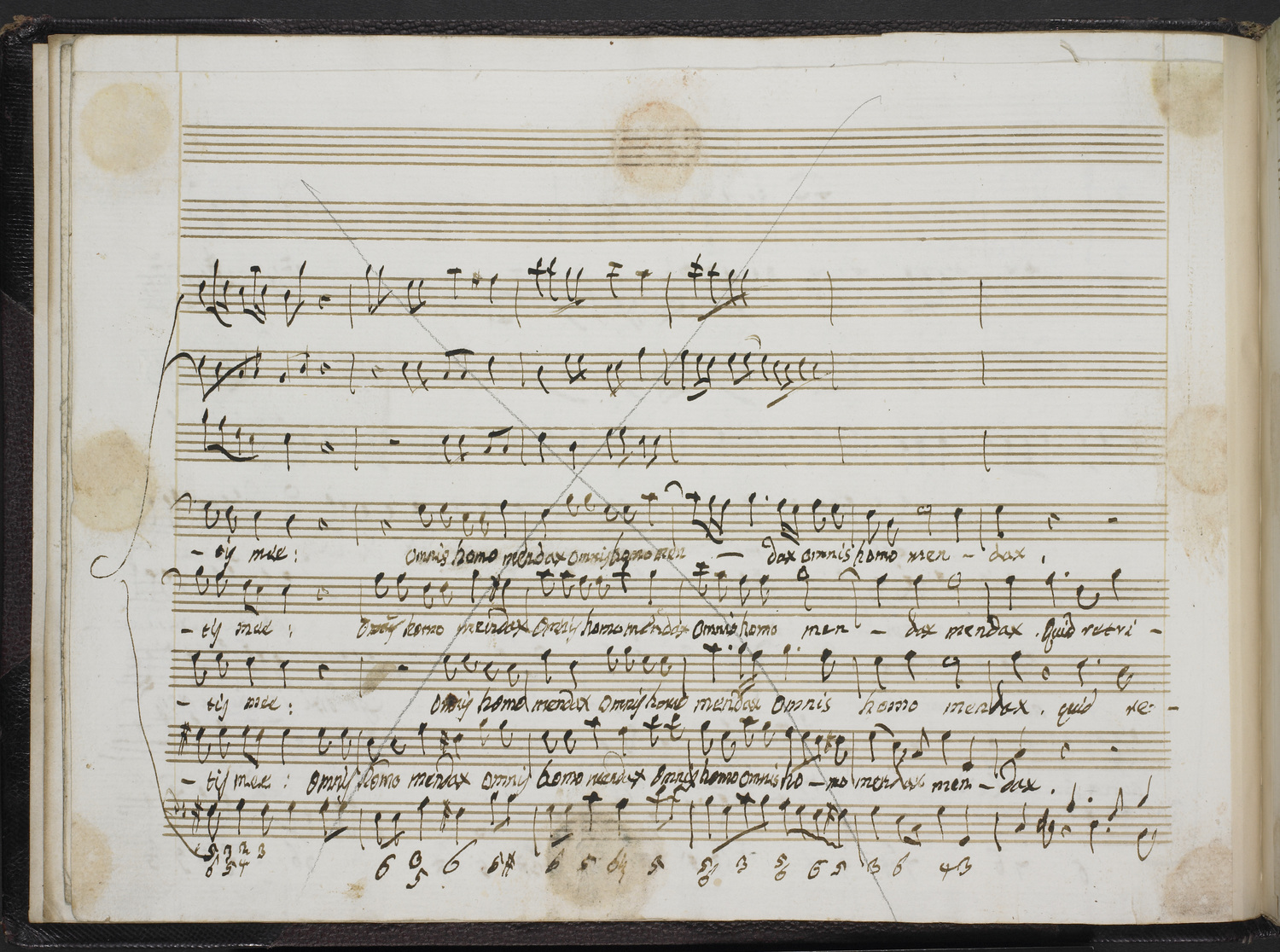 Credidi propter quod locutus sum. In the composer's hand.